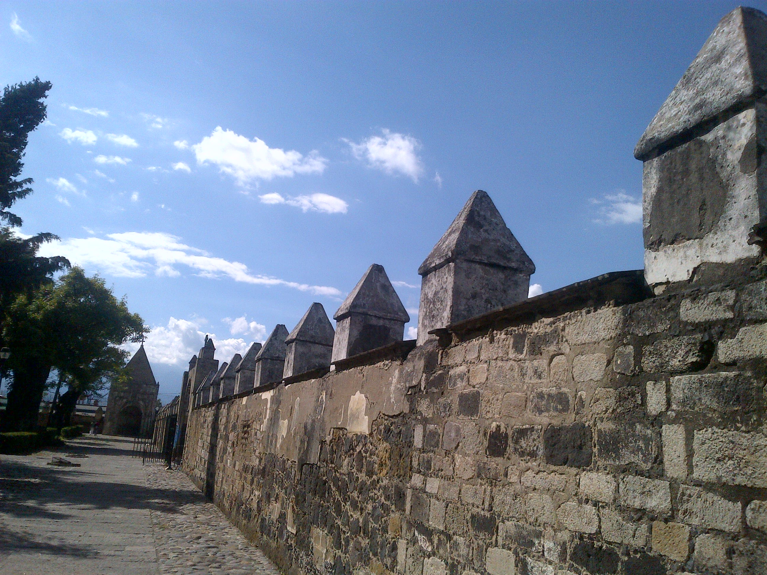 Perspectiva de capilla posa en Huejotzingo, en primer plano, los muros del ex convento Franciscano, al fondo, el volcan Mujer Dormida